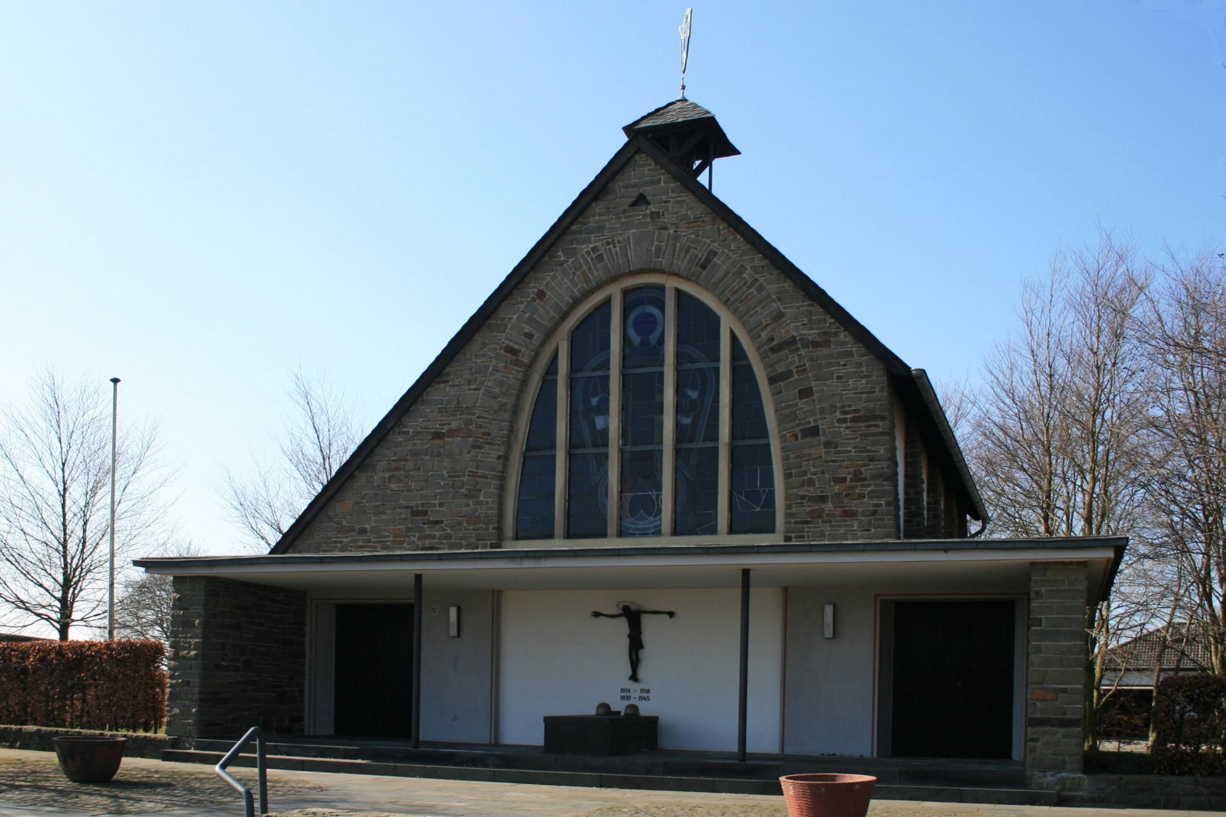 Cultural heritage monument No. 23 in Hürtgenwald